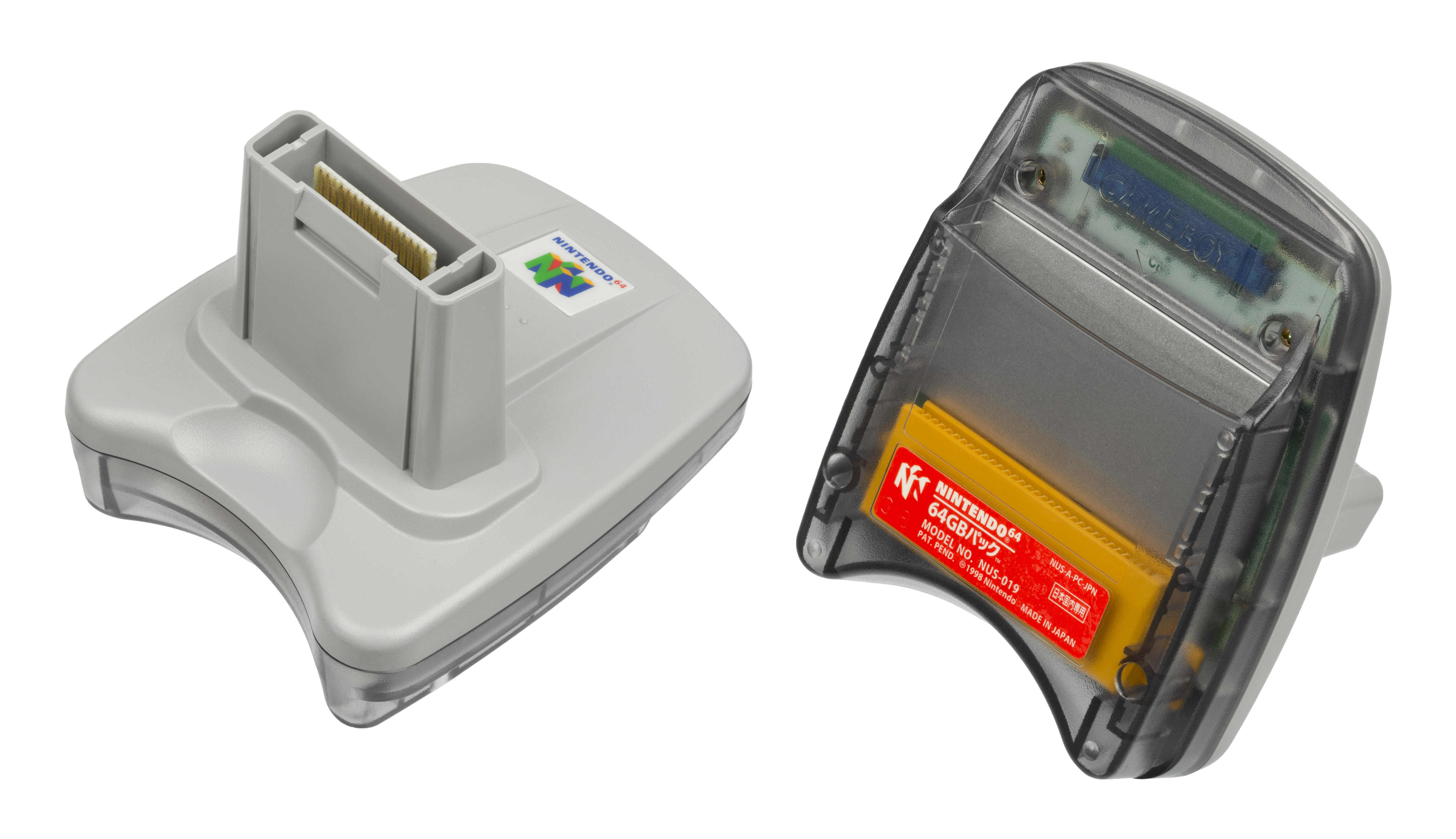 The N64 Game Boy Pak, an adapter for the Nintendo 64 video game console. The Game Boy Pak allowed you to connect Game Boy games to the N64 through the controller, which was only used for a few games.